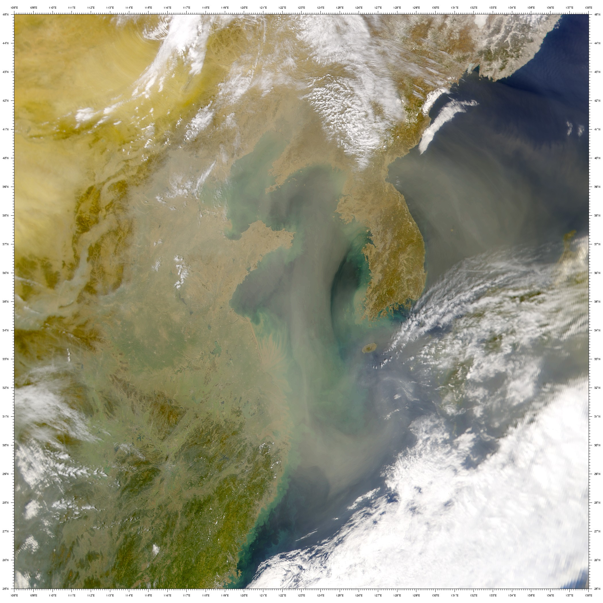 Dust continued to obscure the Yellow Sea and Sea of Japan in this SeaWiFS image of the area obtained on March 21, 2001.